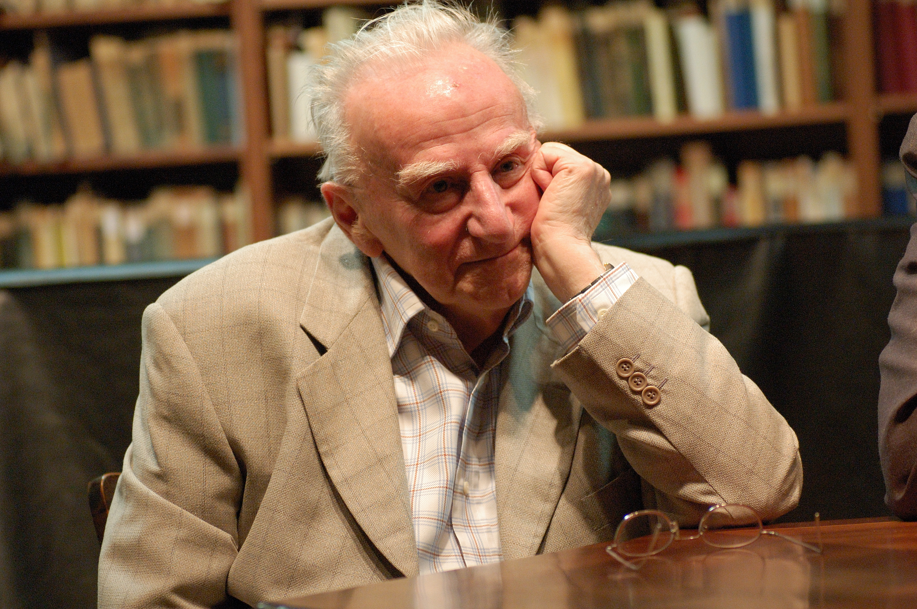 Boris Hazanov @ Tolstoi Bibliothek in Munich